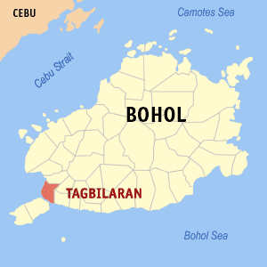 Map of Bohol showing the location of Tagbilaran